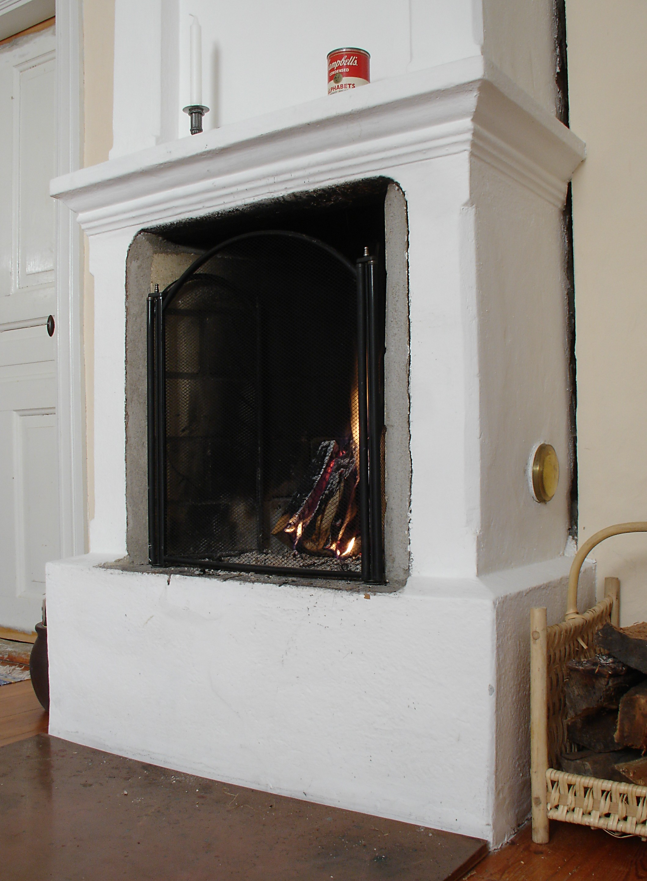 Stove with channels from appr. 1850. Västra Götaland in Sweden.